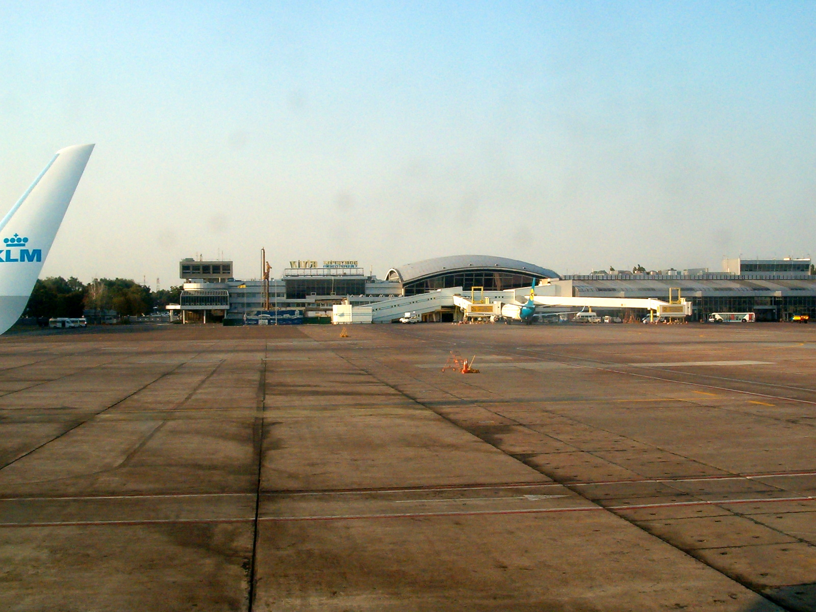 Boryspil International Airport